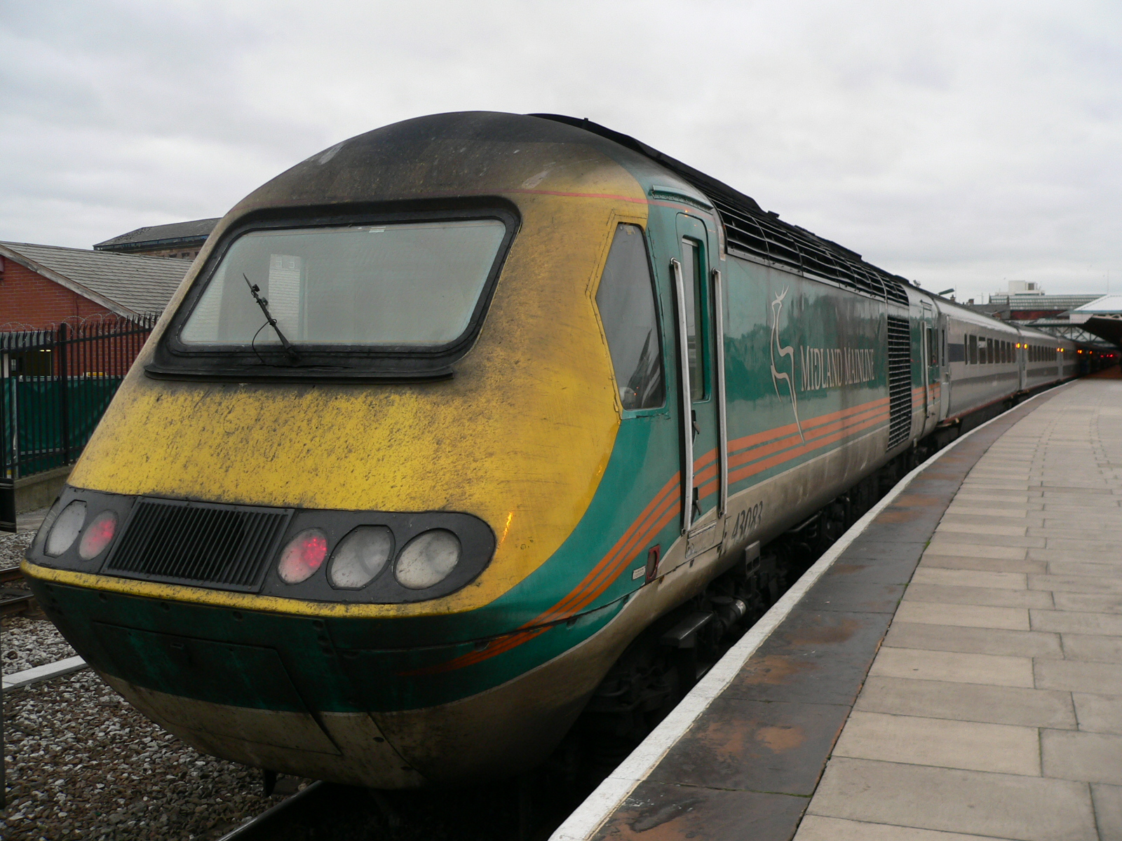 Midland Mainline Class 43 diesel locomotive 43083 in original teal and tangerine livery, in contrast to the blue, grey and white revised livery of the coaching stock. Photographed at Nottingham station on its layover between arriving from and then departing to London St Pancras, 14 November 2005